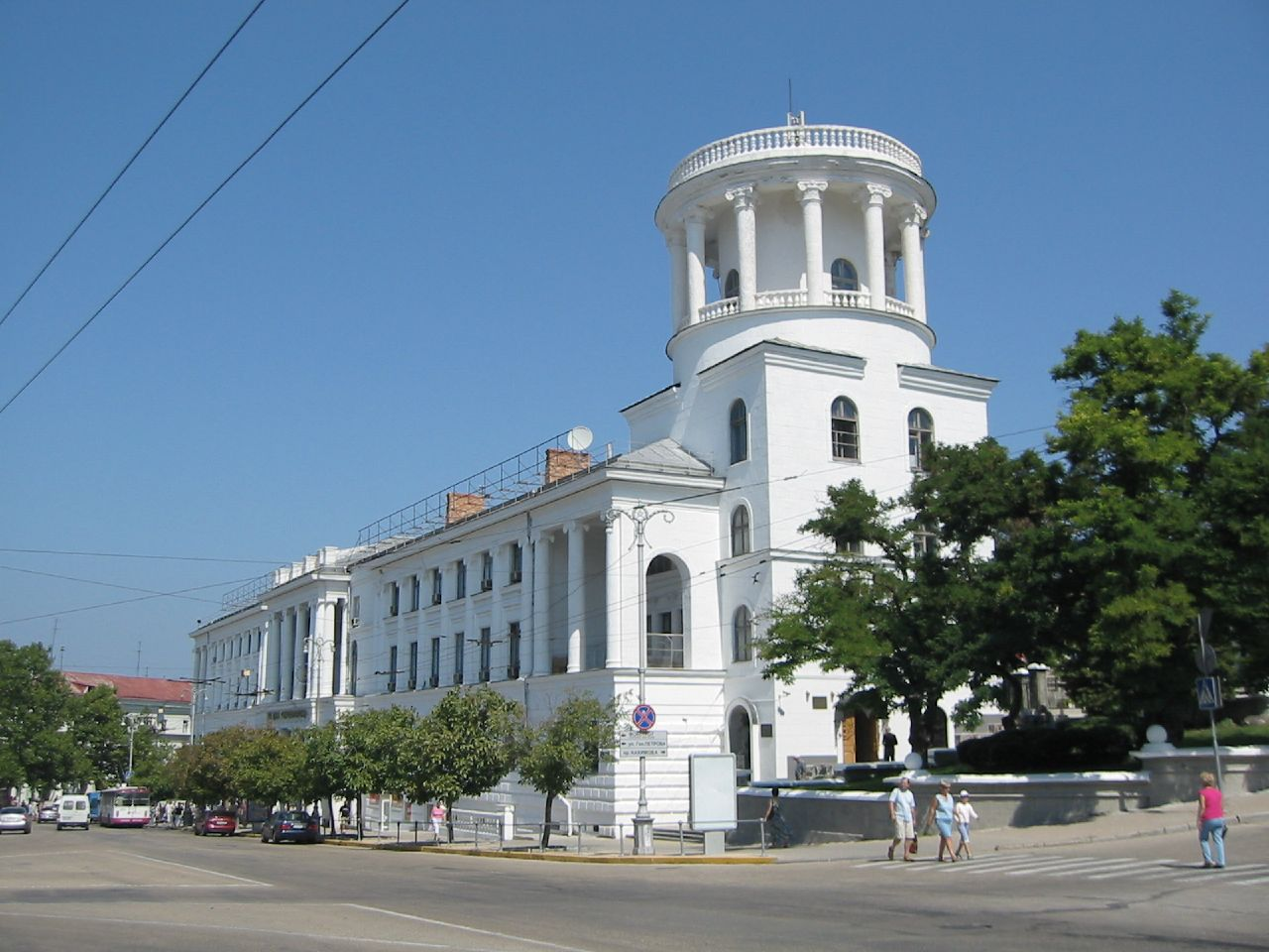 This building in Sevastopol was built in 1954. Architect L. N. Pavlov.